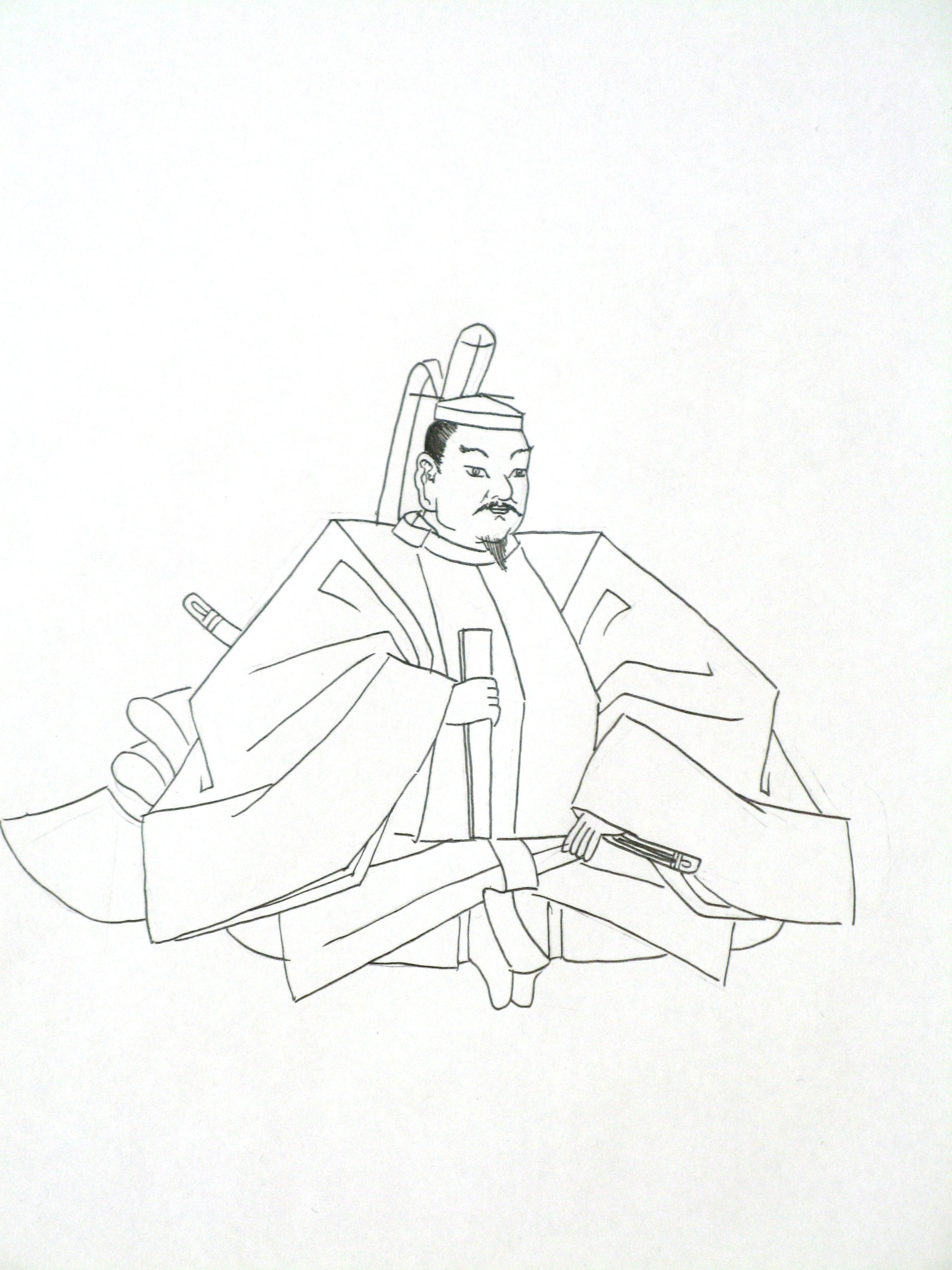 Ashikaga Yoshitane